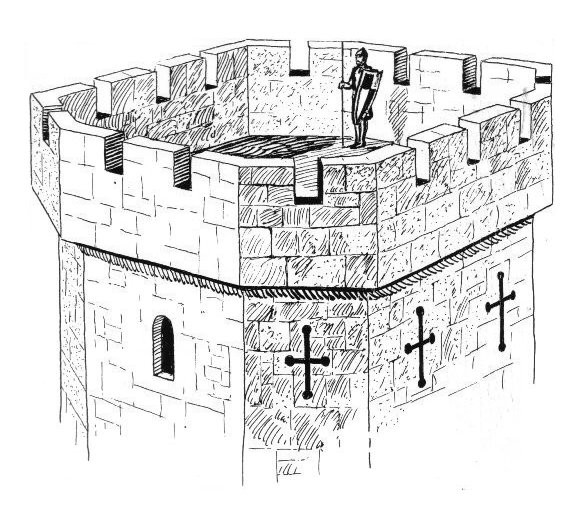 Line art drawing of a battlement.